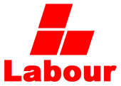 The logo of the New Zealand Labour Party used from the mid 1960's to early 1990's.